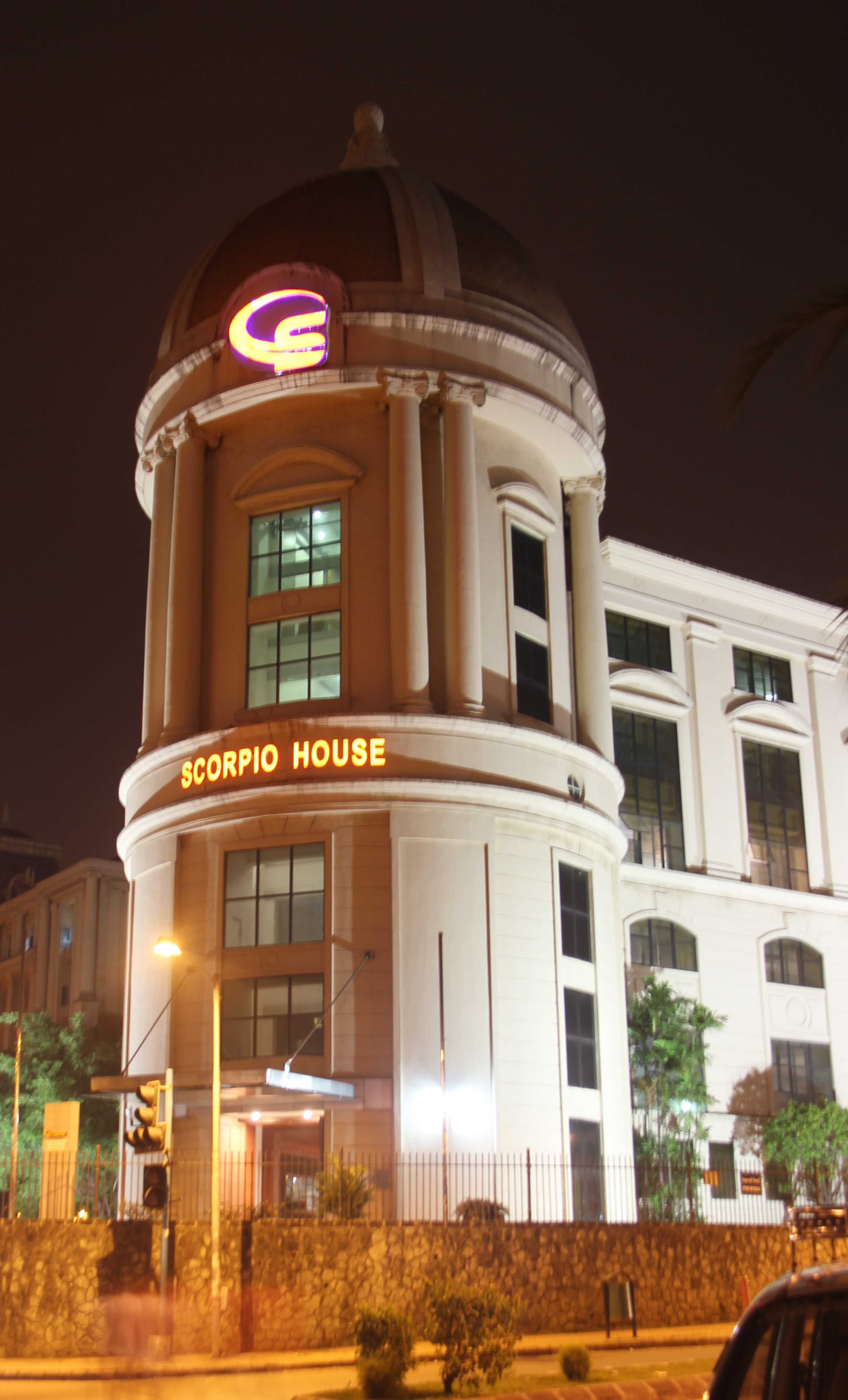 Scorpio House in Hiranandani Powai